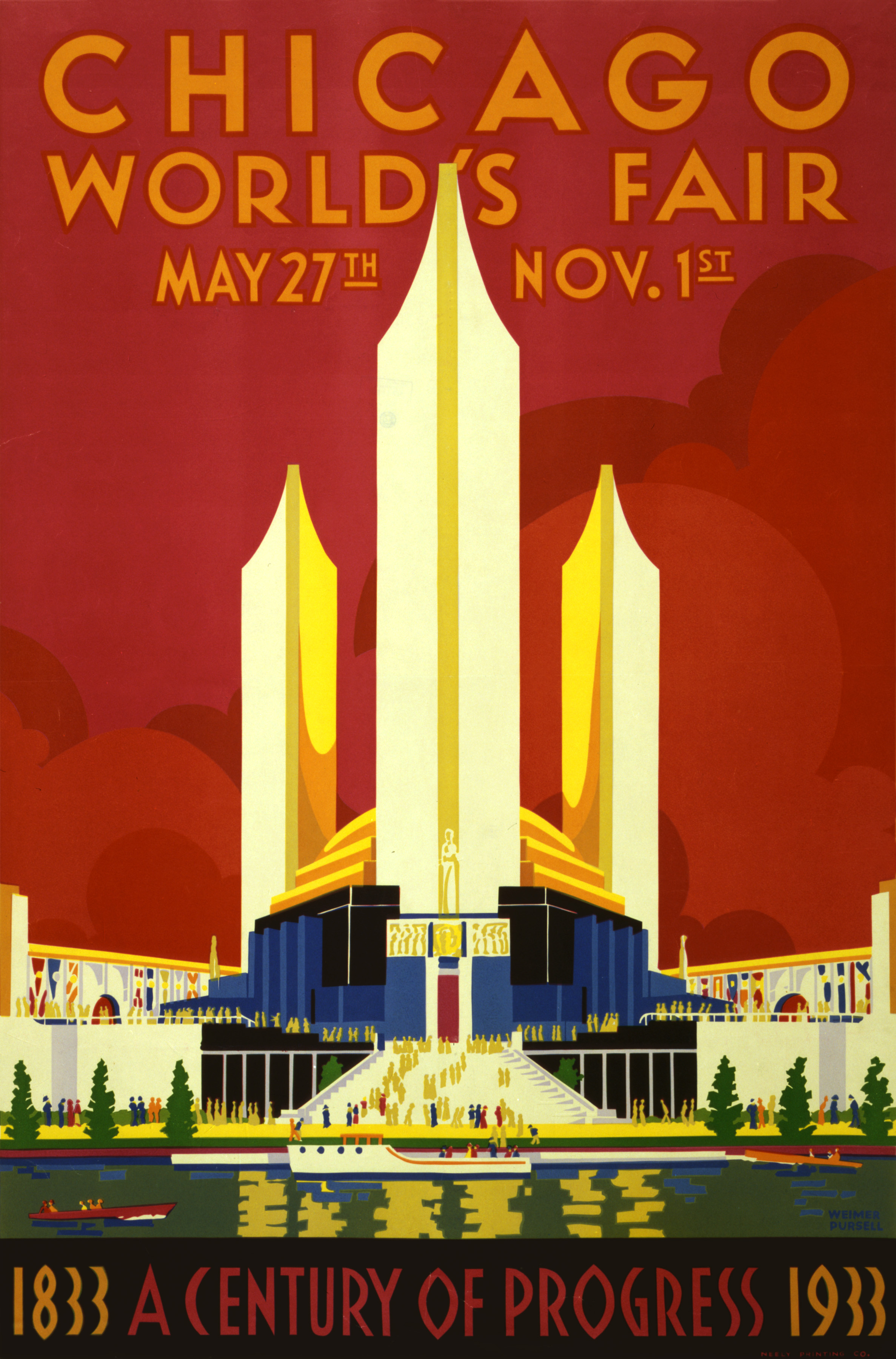 Poster for Century of Progress World's Fair showing exhibition buildings with boats on water in foreground.